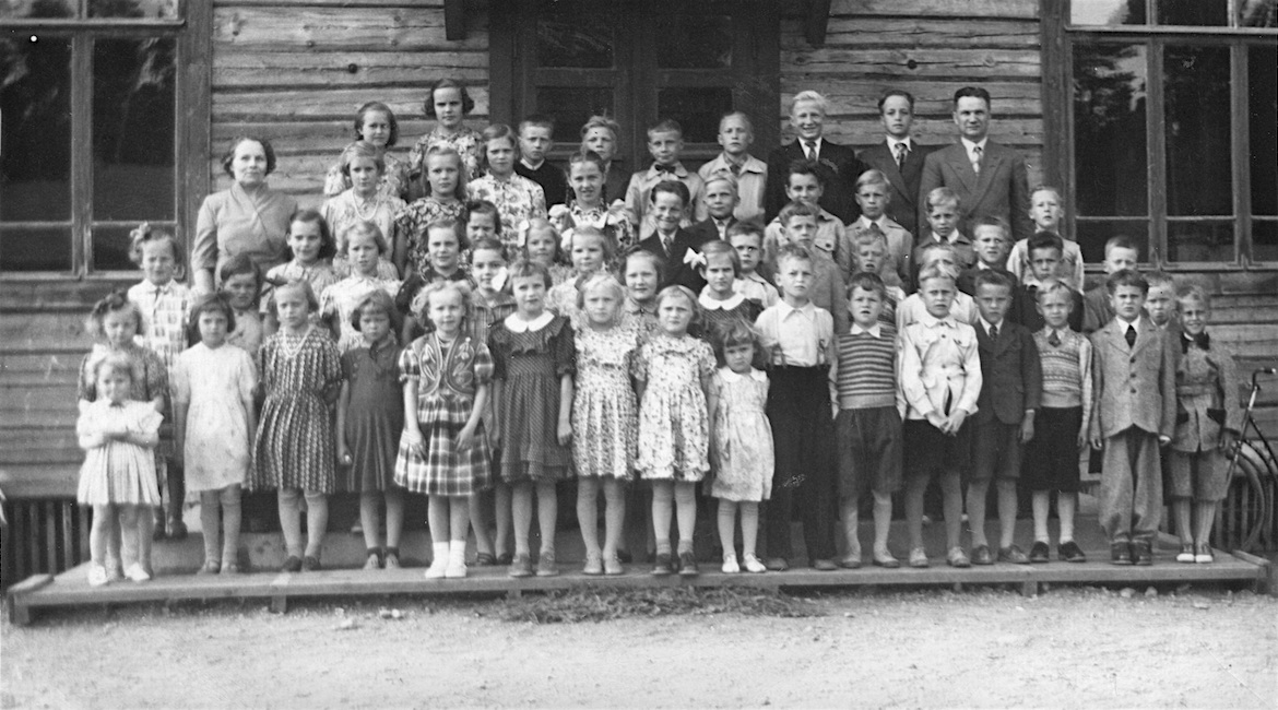 Elementary school picture